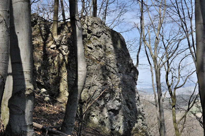 Summit of the Pohanská